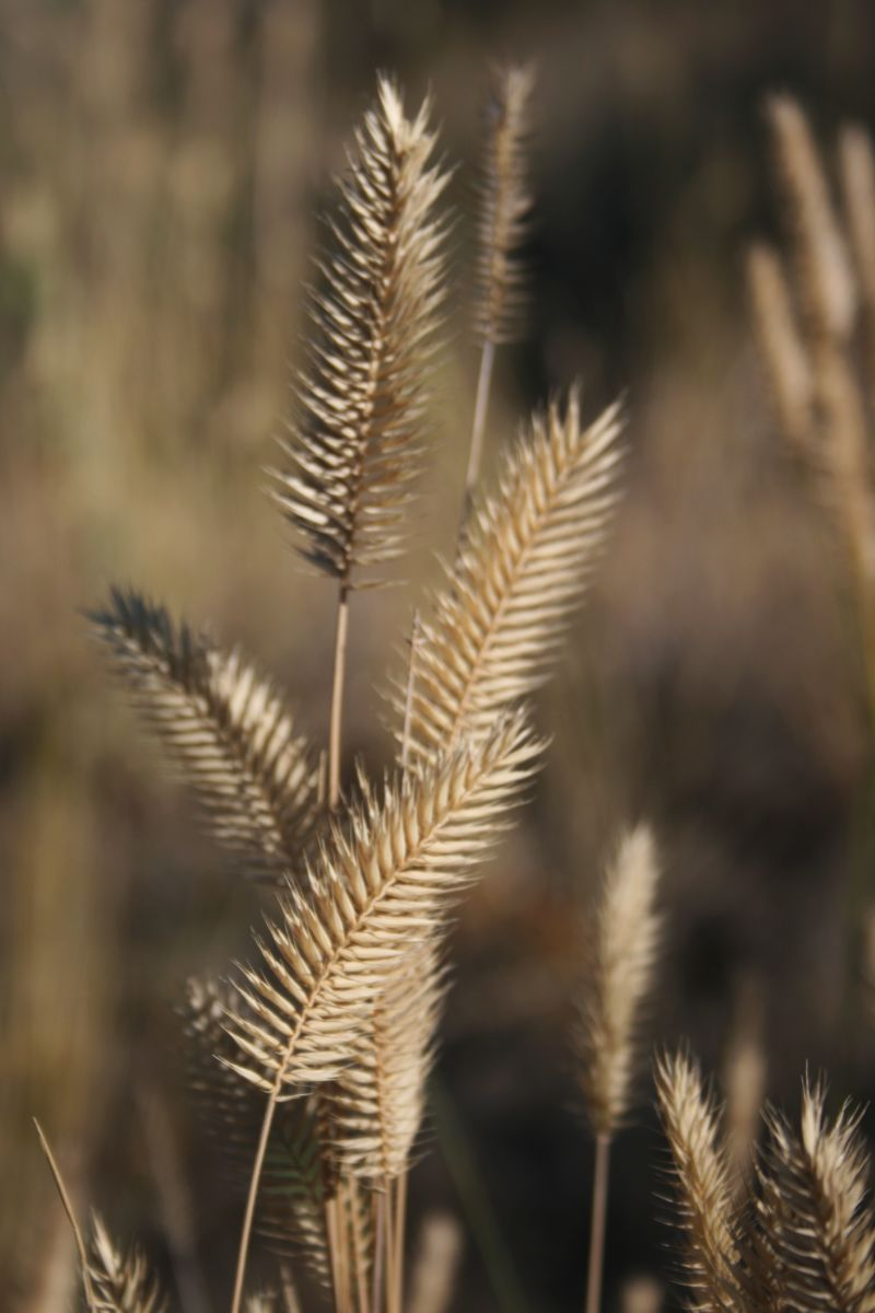 Agropyron cristatum, Süßgräser (Poaceae) - Kanada/Canada: British Columbia, Kamloops